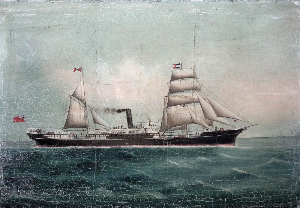 Late 19th Century School - Oil painting - Ship portrait - "S.S. Catherine Apcar, Apcar Line Steamers, Calcutta, commanded by Alexander Stewart", canvas laid on board 12.5ins x 18ins, apparently unsigned. Handwritten labels on reverse note that: "Alexander Stewart was Chief Officer on this ship from 19-11-1896 to 22-3-1900". Label also bears a signature for 'A.Stewart'.